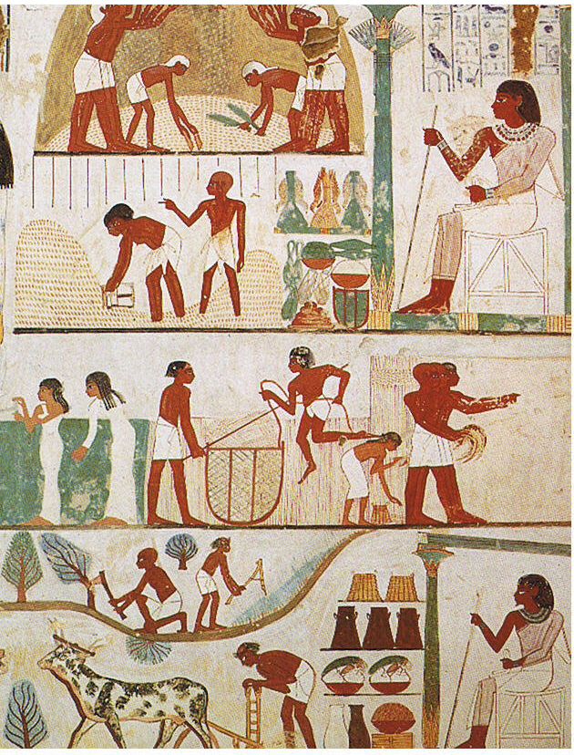 Agricultural scenes of threshing, a grain store, harvesting with sickles, digging, tree-cutting and ploughing from the tomb of Nakht, 18th Dynasty Thebes